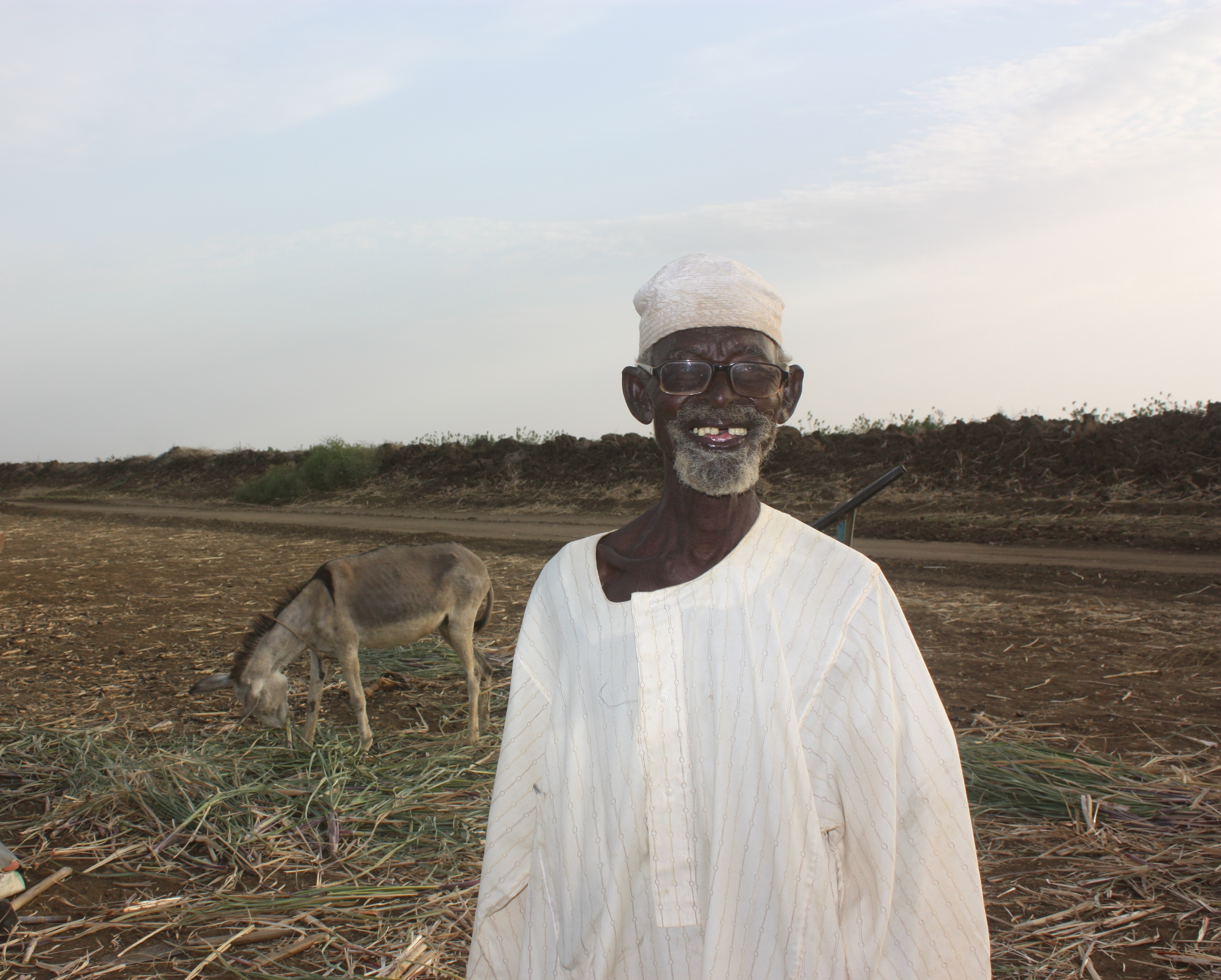 This picture is in South Sudan in 2011 in ALGAZIRA State .